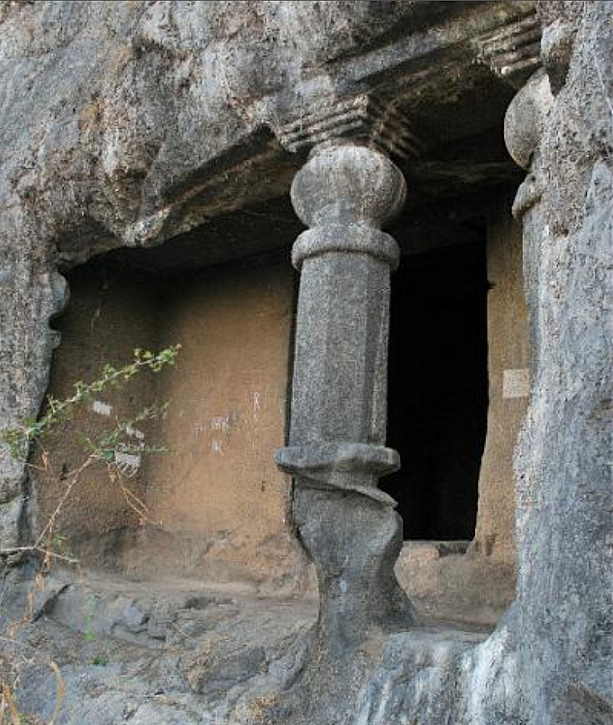 Shivneri East facing Group 2